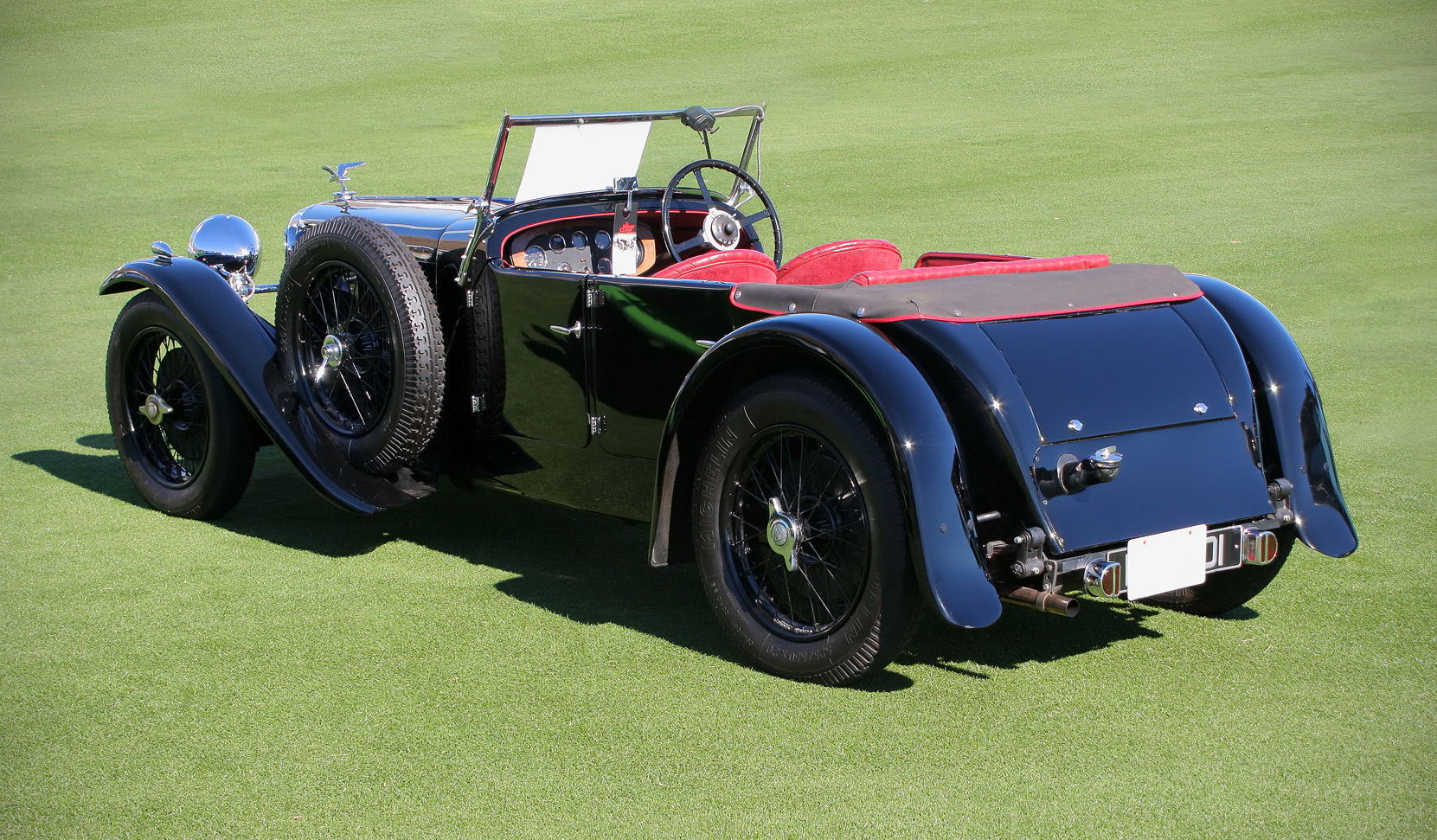 Alvis Speed 20A Sport Tourer (1932) at the 2011 Desert Classic, La Quinta, CA